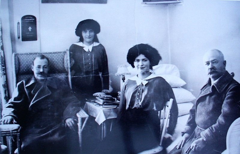 The Grand Duchesses Anastasia and Maria Nikolaevna of Russia with convalescent officers in the lazaret.